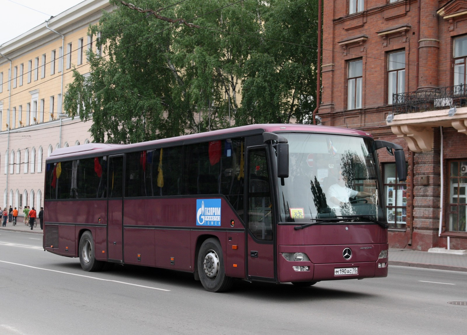 Mercedes-Benz Intouro in Tomsk, Russia